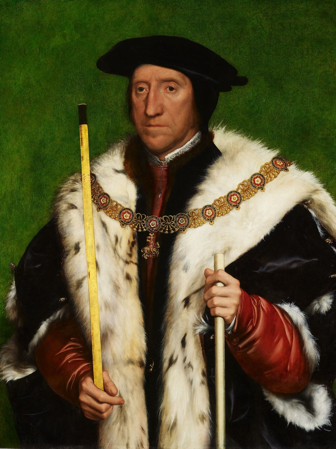 Hans Holbein the Younger, Thomas Howard, Third Duke of Norfolk, circa 1539, oil on panel, 80.1 × 61.4 cm (Royal Collection, RCIN 404439).